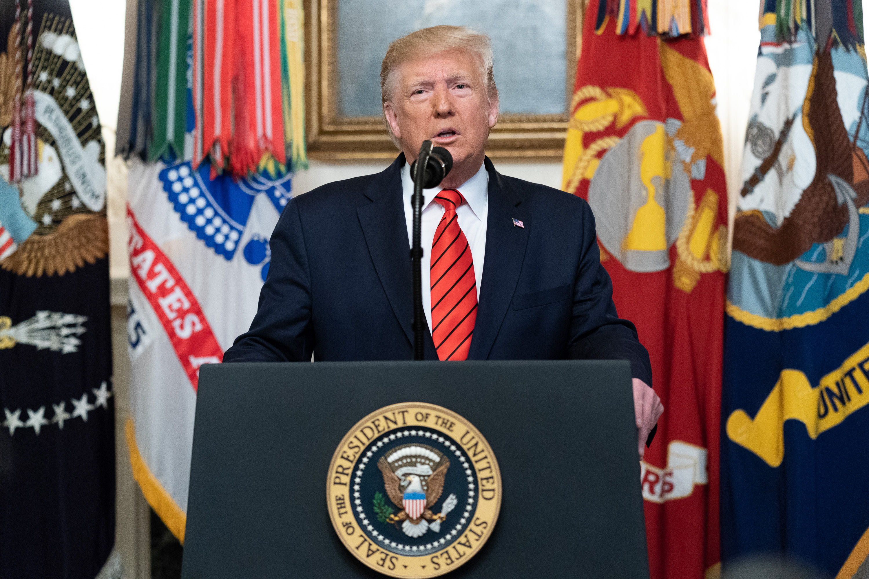 President Donald J. Trump addresses his remarks to the nation Sunday morning, Oct. 27, 2019, in the Diplomatic Reception Room of the White House, to announce details of the U.S. Special Operations Forces mission against notorious ISIS leader Abu Bakr al-Baghdadi’s compound in Syria. (Official White House Photo by Shealah Craighead)